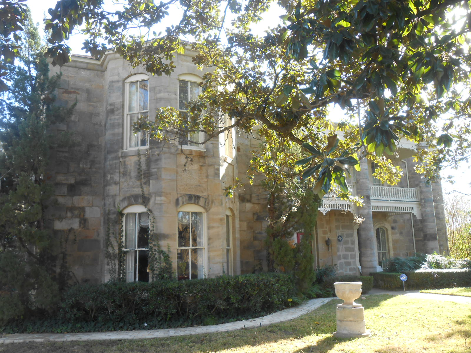 One of the oldest buildings in Gonzales, Texas, the old Gonzales College was built in 1851 using stone from Peach Creek.